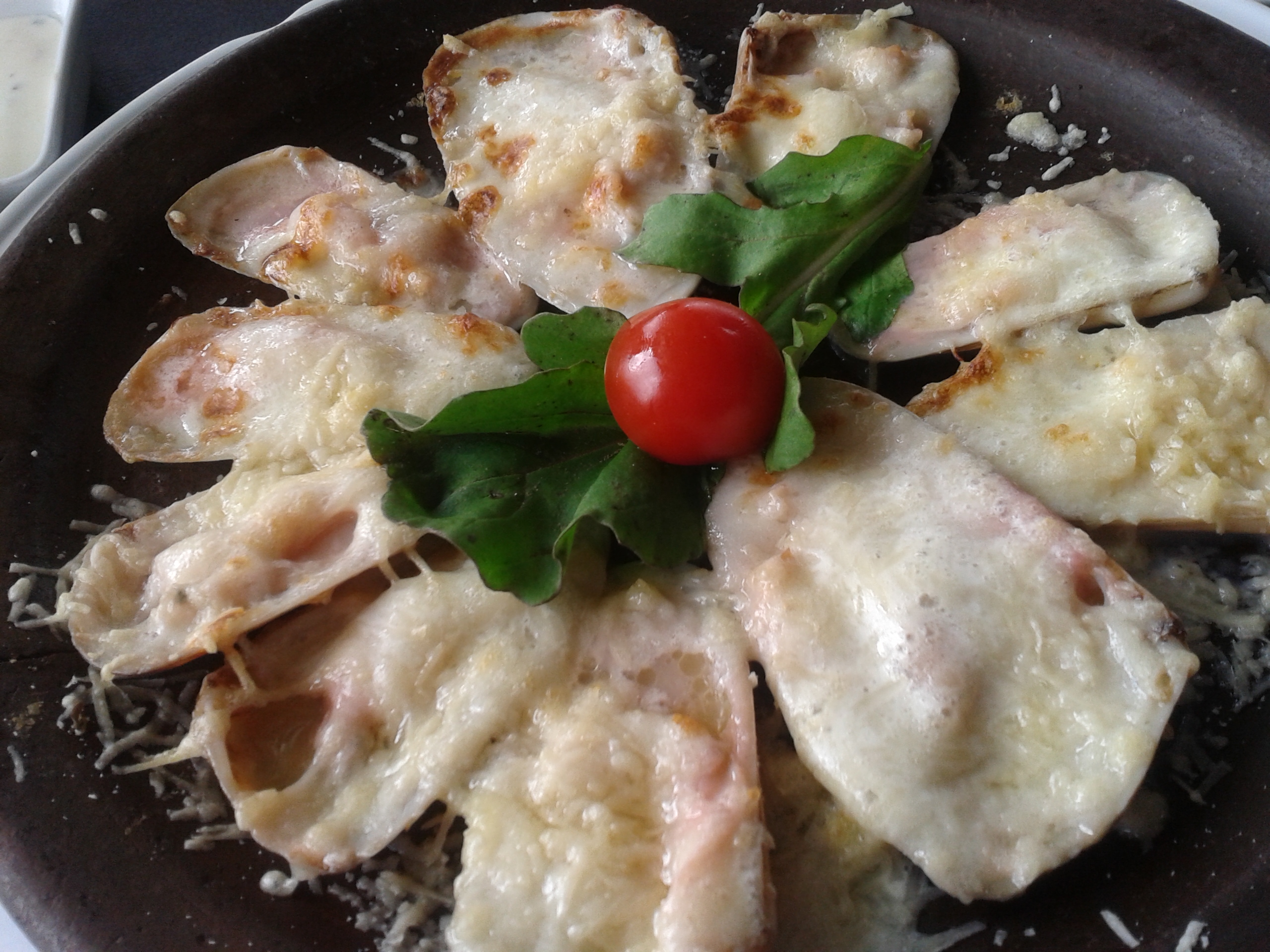 Machas a la parmesana, a seafood dish from Chile.